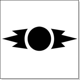 This is my guild's sign